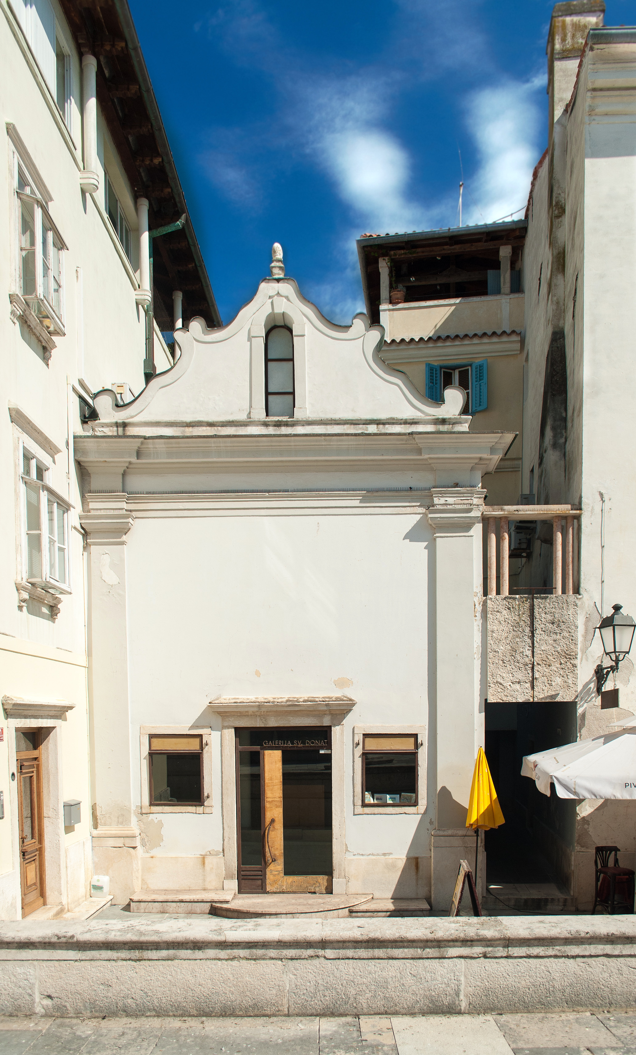 St. Donatus's Church in Piran. It is an abandoned church that now serves as an art gallery. It was built in the 14th century and redesigned in the Baroque period.